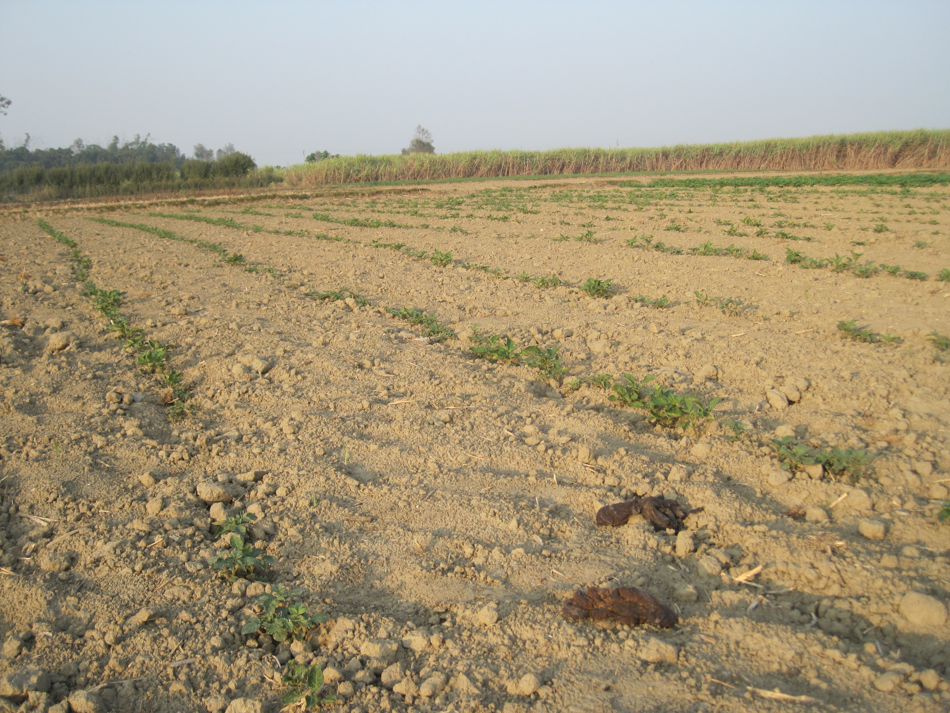 Open defecation in rural Bihar, India